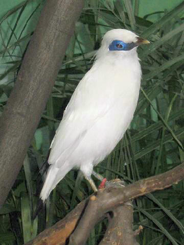 Description: Bali Starling - Source: own work - Location: Bronx Zoo, New York - Author: self, User:Stavenn